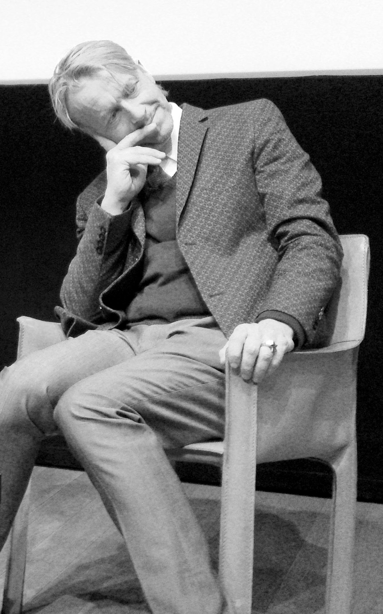 Ernst Billgren, Stockholm